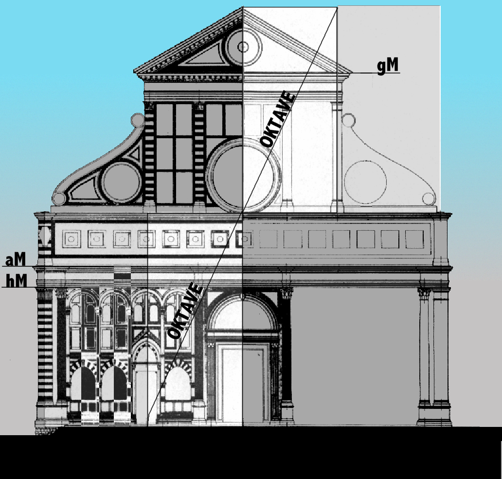 The means at the facade of St. Maria di Novella (Florence)